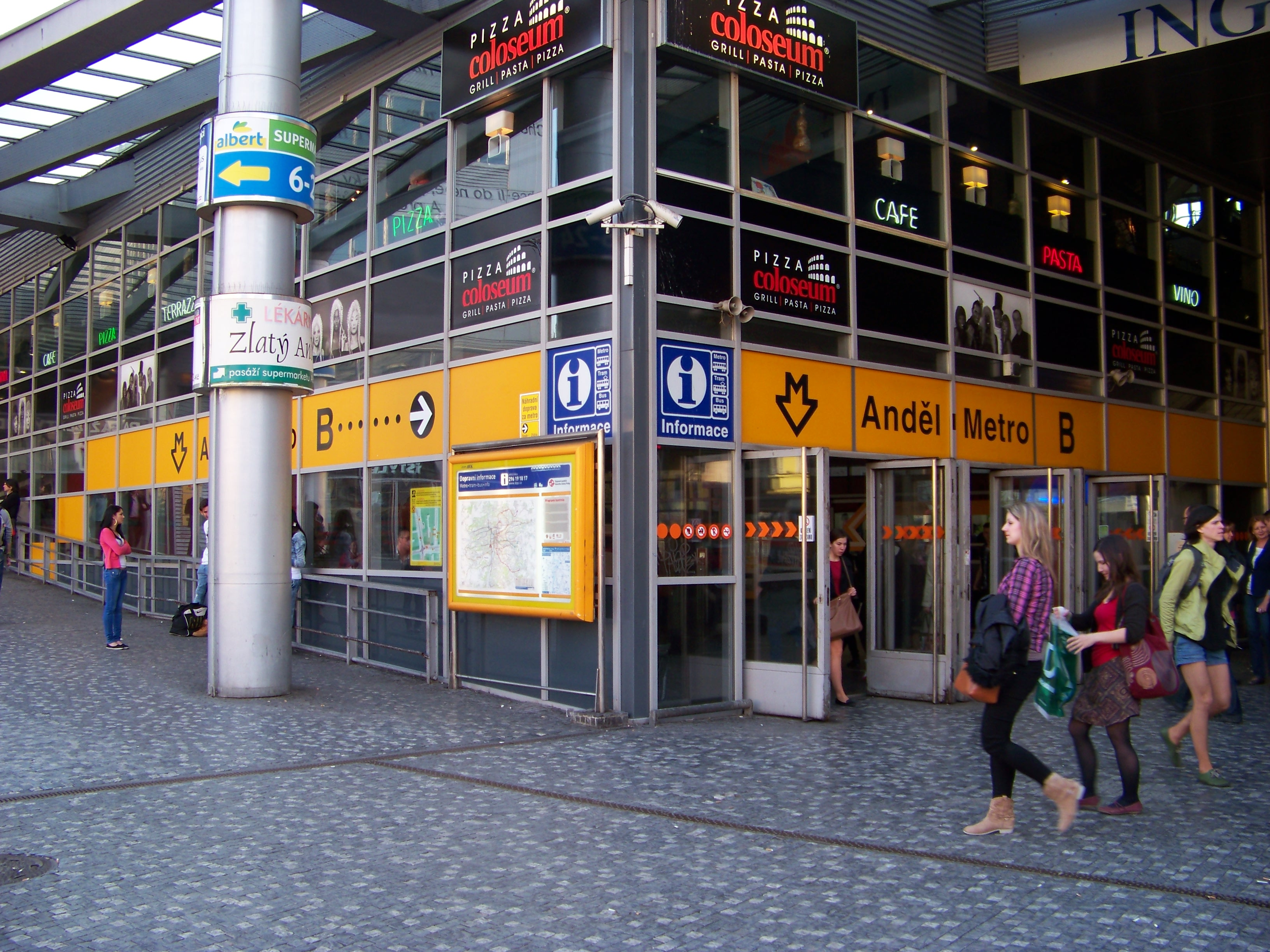 Prague-Smíchov, Czech Republic. Nádražní 344/23, Zlatý Anděl building, metro station Anděl.